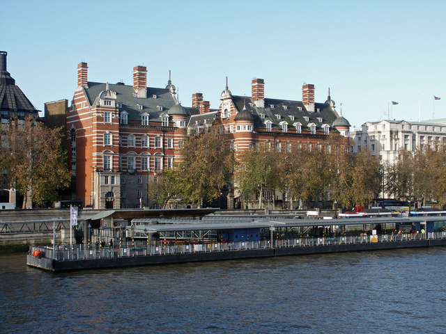 Old "New Scotland Yard", Westminster Viewers of old black-and-white crime dramas will recognise the red brick building on the right as the former HQ of the Metropolitan Police - before they moved nearer to the Home Office. It was, for example, in the opening credits of "Fabian of the Yard". On the extreme left is the edge of Portcullis House, new offices for MPs.